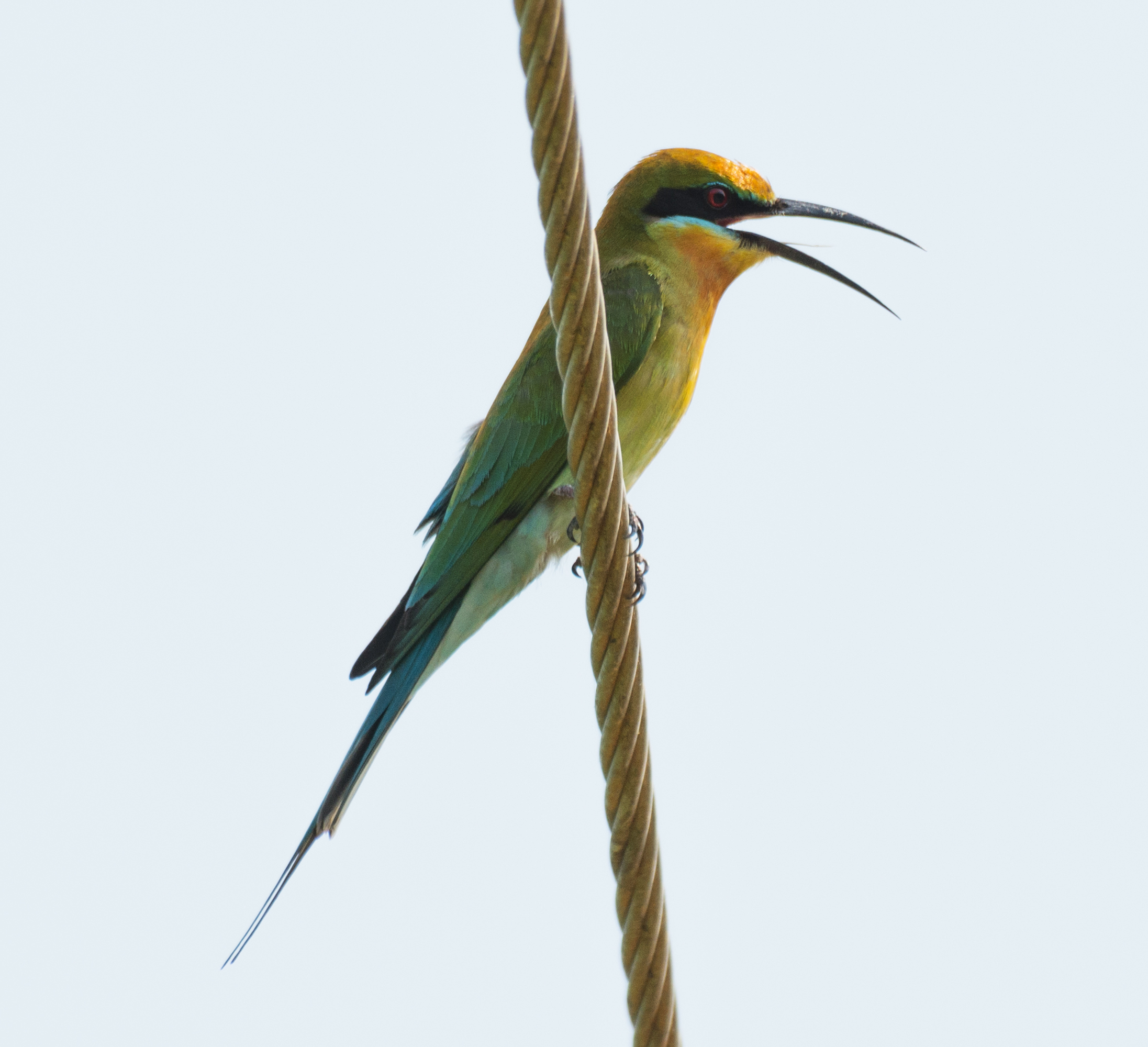 The blue-tailed bee-eater (Merops philippinus) is a near passerine bird in the bee-eater family Meropidae. It breeds in southeastern Asia. It is strongly migratory, seen seasonally in much of peninsular India.